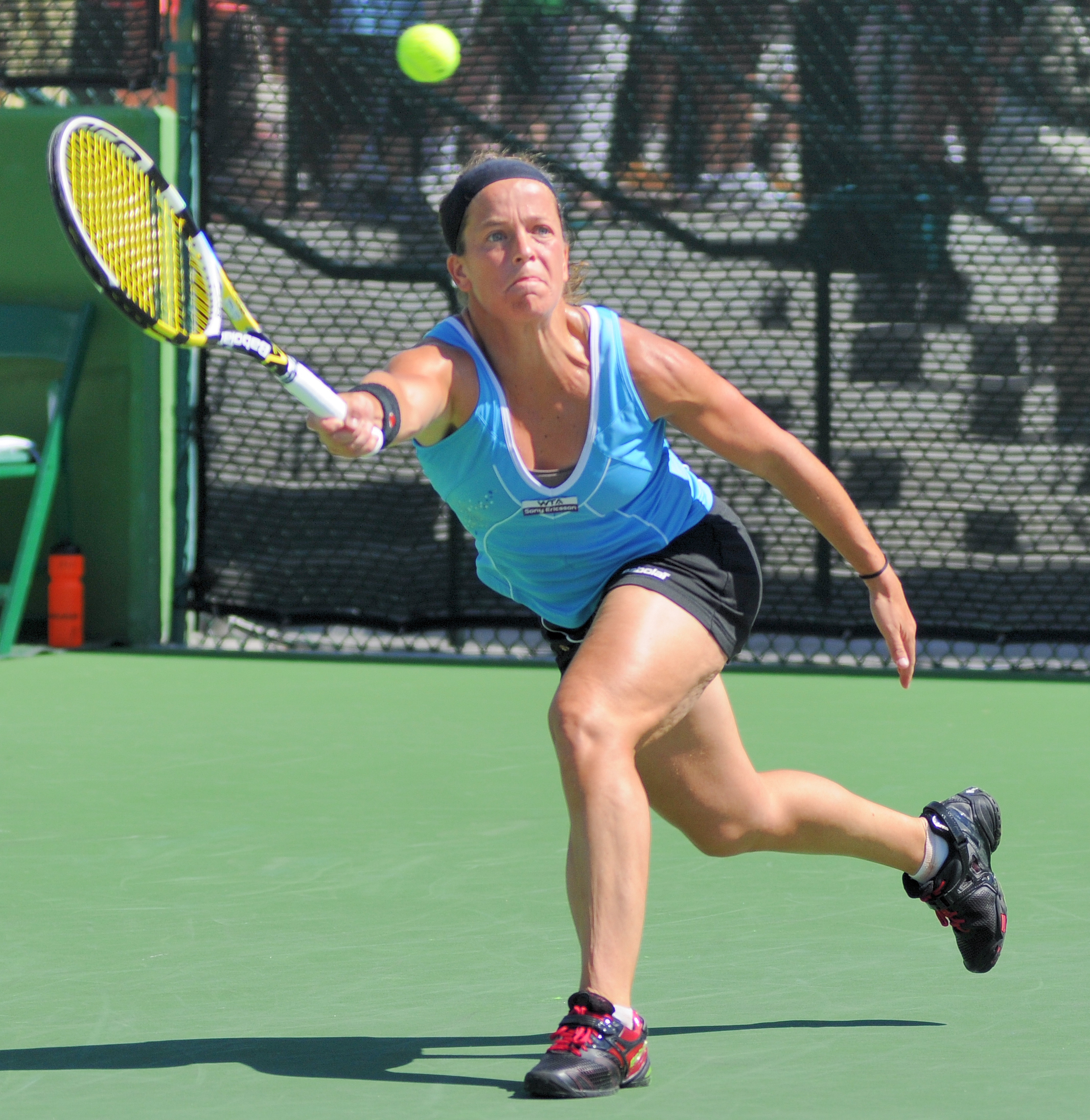 at the BNP Paribas Open 2012